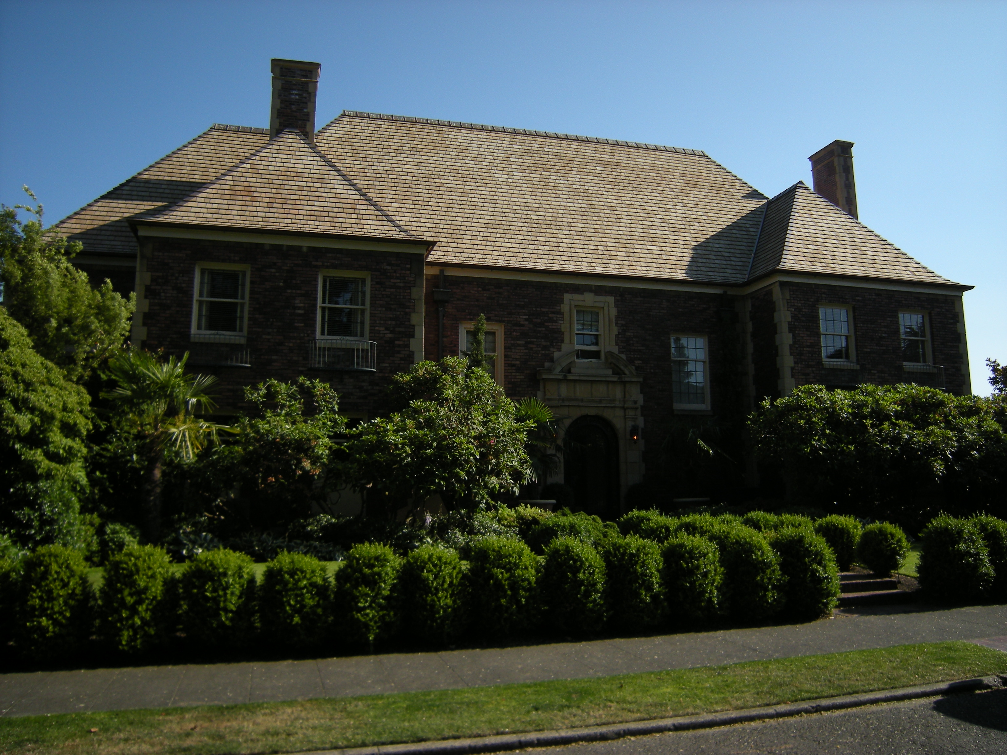 Stuart Residence and Gardens (also known as Stuart-Balcolm Residence), 619 W Comstock Street, Queen Anne Hill, Seattle, Washington. Designed by the architect A.H. Albertson in 1926, completed 1928. Has city landmark status and is on the National Register of Historic Places, ID #83003345.